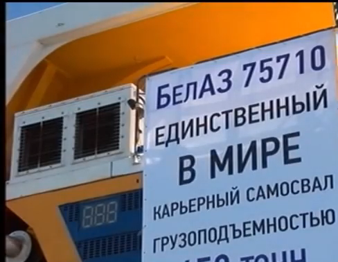 Braking Resistors BelAZ 75710